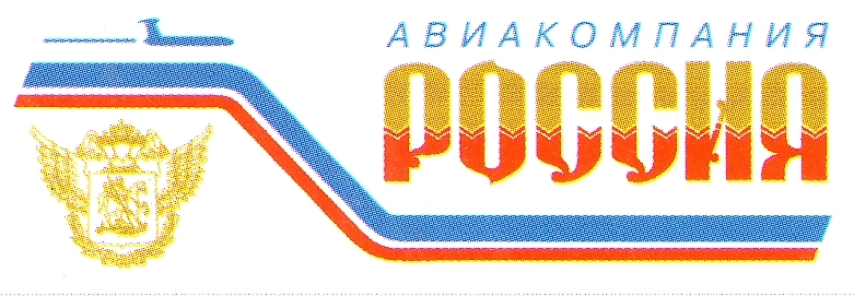 Logo of GTK Rossiya